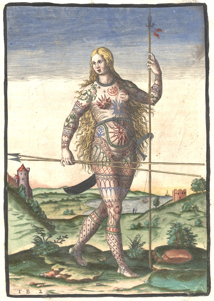 Hand-colored version of Theodor de Bry’s engraving of a Pict woman (a member of an ancient Celtic people from Scotland). De Bry’s engraving, “The True Picture of a Women Picte,” was originally published as an illustration in Thomas Hariot’s 1588 book A Briefe and True Report of the New Found Land of Virginia. The woman stands with a long spear held upright in her left hand, and two long spears held horizontally in her right hand. She wears only a large ring around her waist, from which a curved sword hangs behind her, and a smaller ring around her neck. Much of her body appears to be painted or tattooed. In the background, two buildings stand on hillsides. Theodor de Bry was a Flemish-born engraver and publisher who based his illustrations for Hariot’s book on the paintings of colonist John White. Most of the book’s illustrations depict the native people encountered by Hariot and White on their North American expedition, but A Brief and True Report also contains five engravings of the Picts and their neighbors in ancient Scotland. De Bry included these images “to show how that the inhabitants of the Great Bretannie have been in times past as savage as those of Virginia.” An unidentified artist applied the color to this version of de Bry’s engraving.